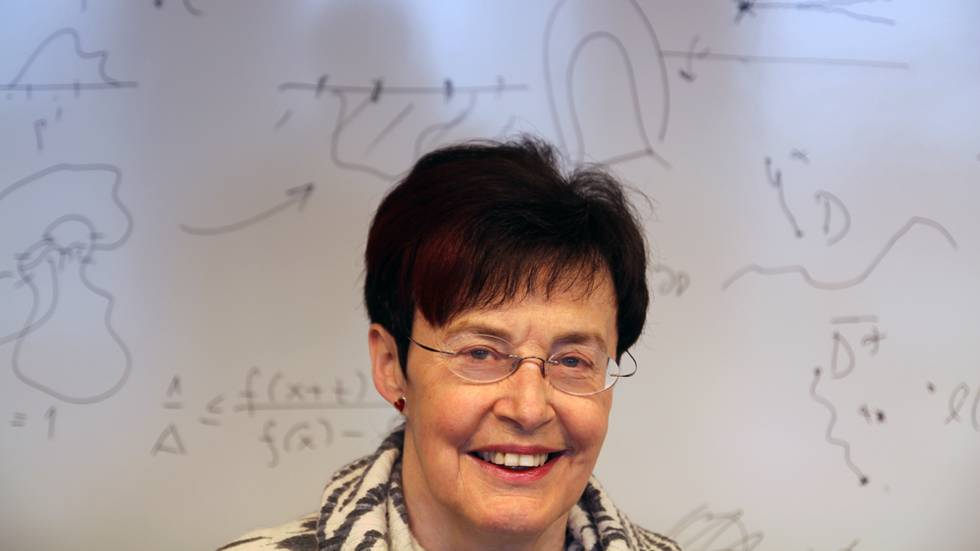 the Norwegian mathematician, professor at the Norwegian University of Science and Technology (NTNU): Kari Hag